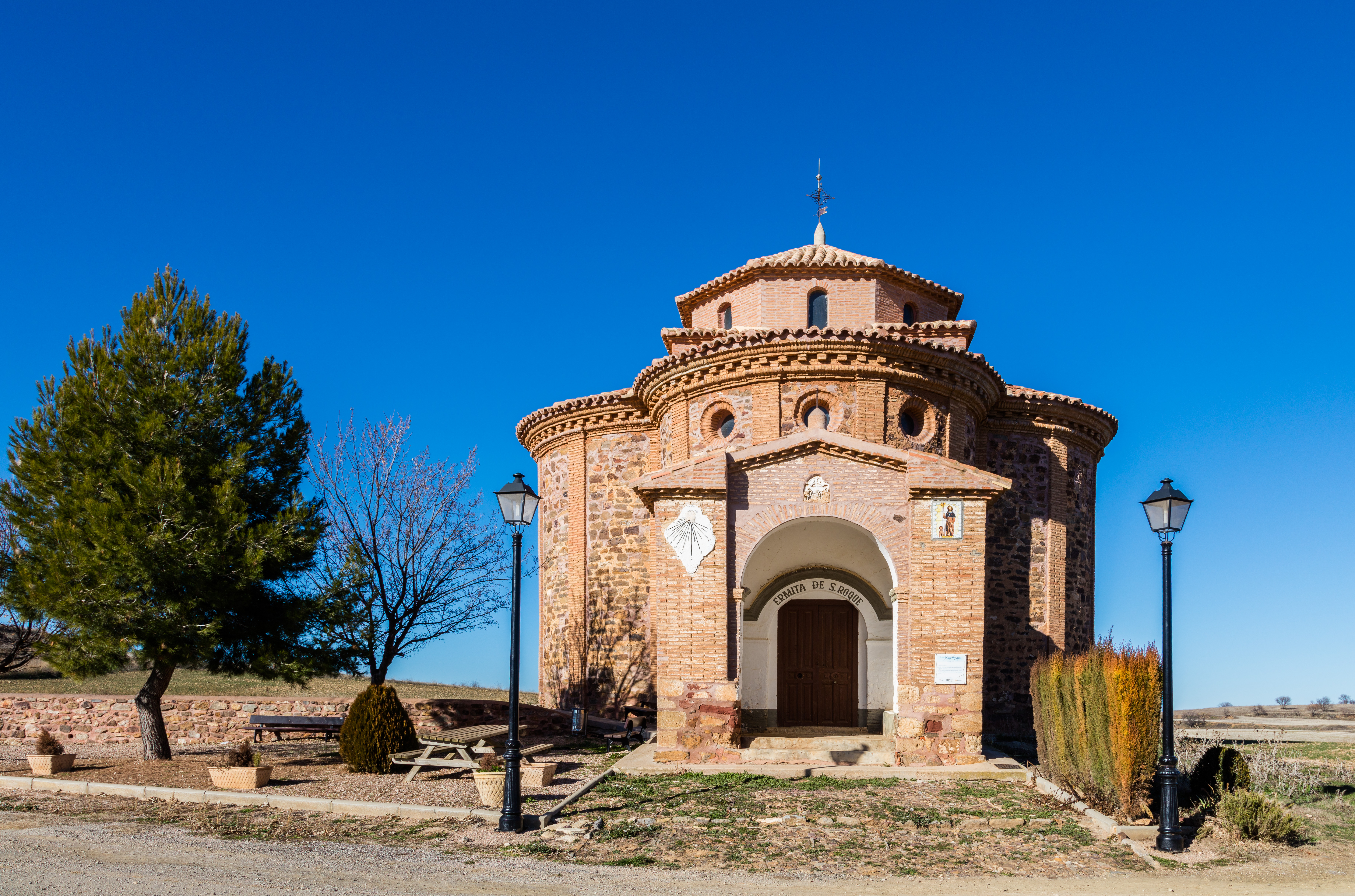 Hermitage of San Roque, Loscos, Teruel, Spain